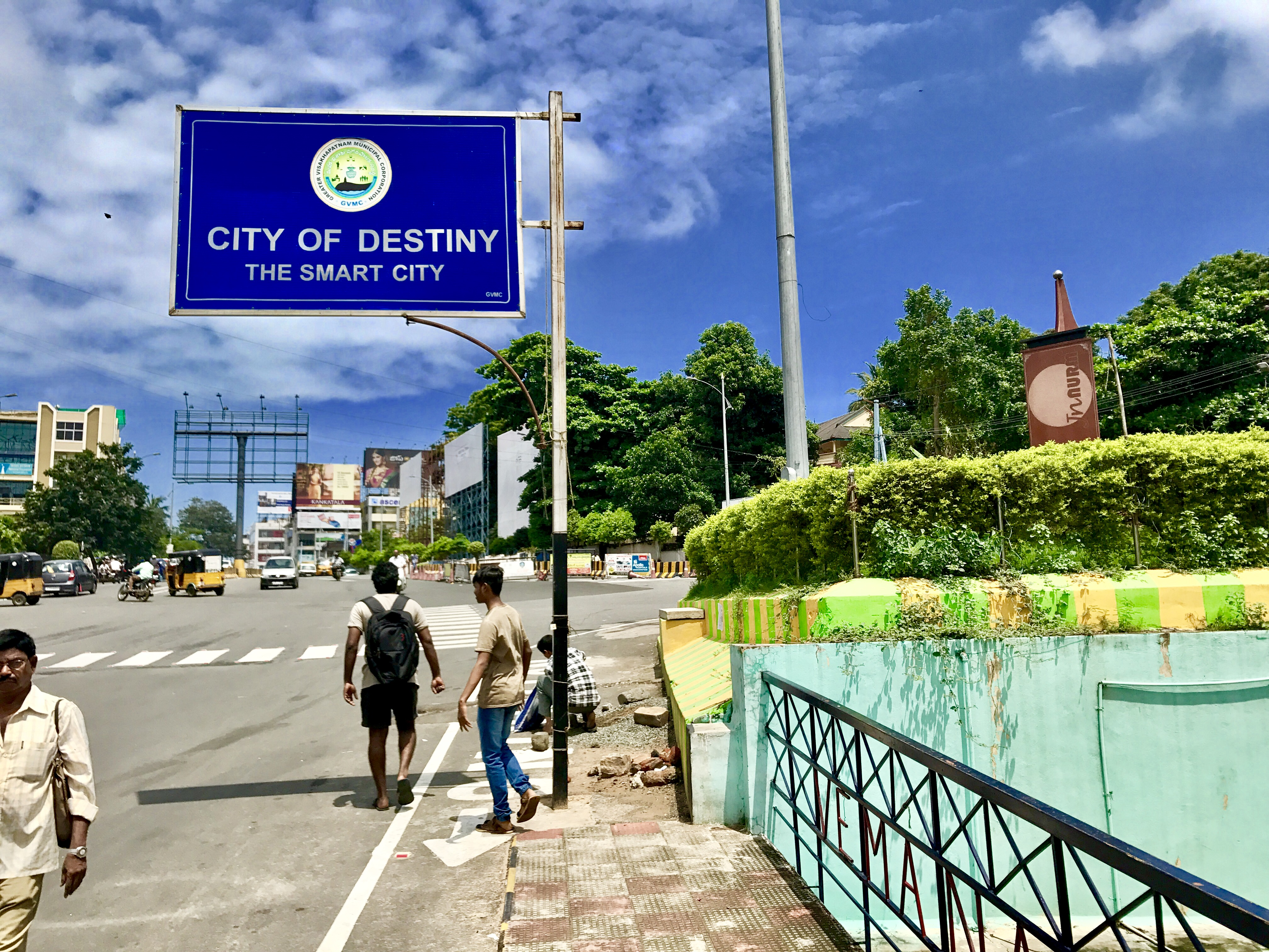 City of Destiny board in Vizag